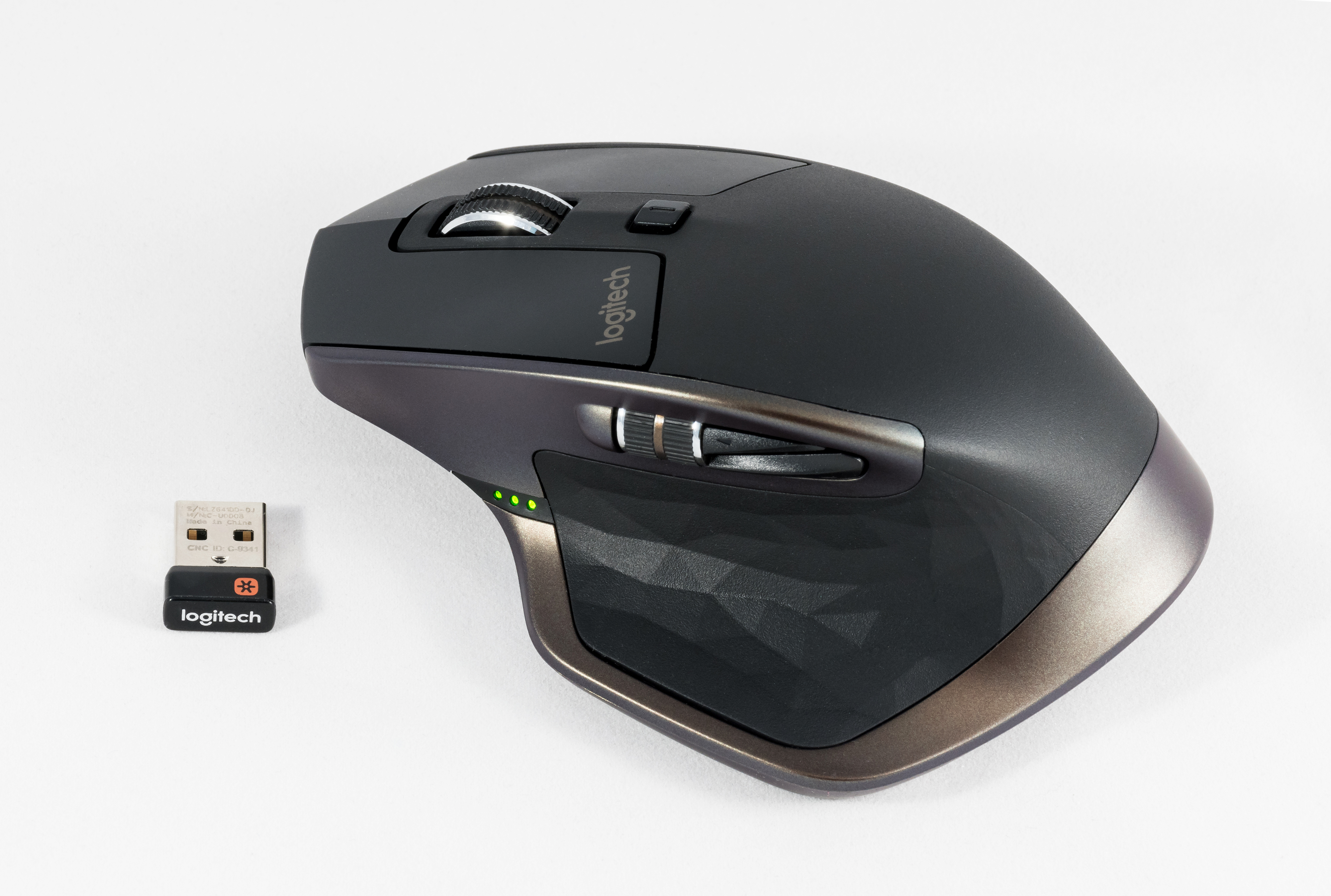 Logitech MX Master S2 computer mouse